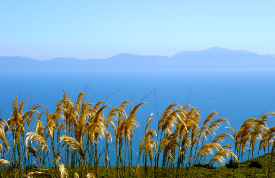 Rakiura is the Maori name for Stewart Island, the 'third island' of New Zealand. This summer view is taken from the summit of Bluff Hill, on the far southern tip of the South Island. Foveaux Strait is right in the middle of the Roaring Forties, and is very rarely this calm.Rakiura and Foveaux Strait from Bluff Hill